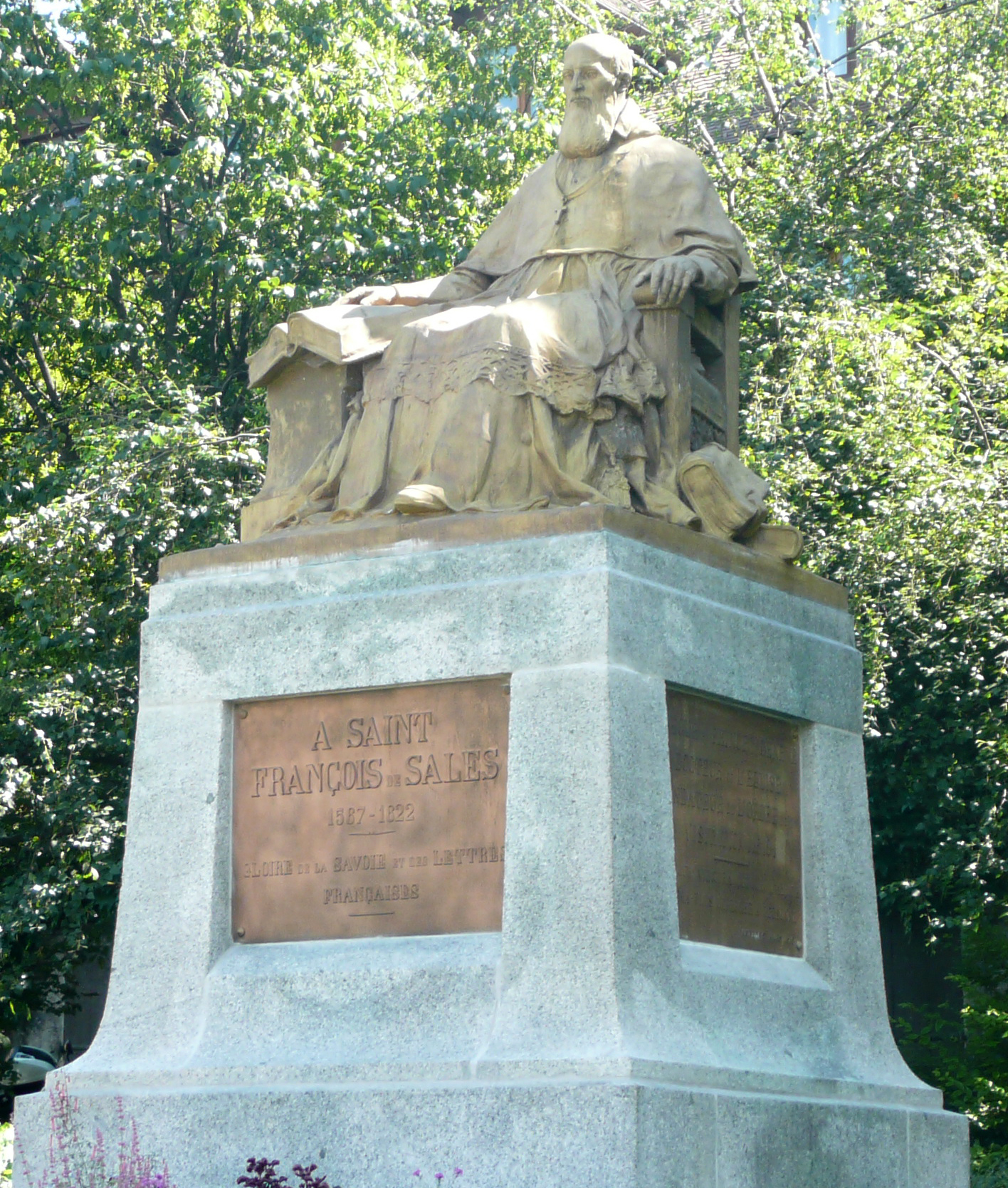 Franz von Sales Memorial in Annecy